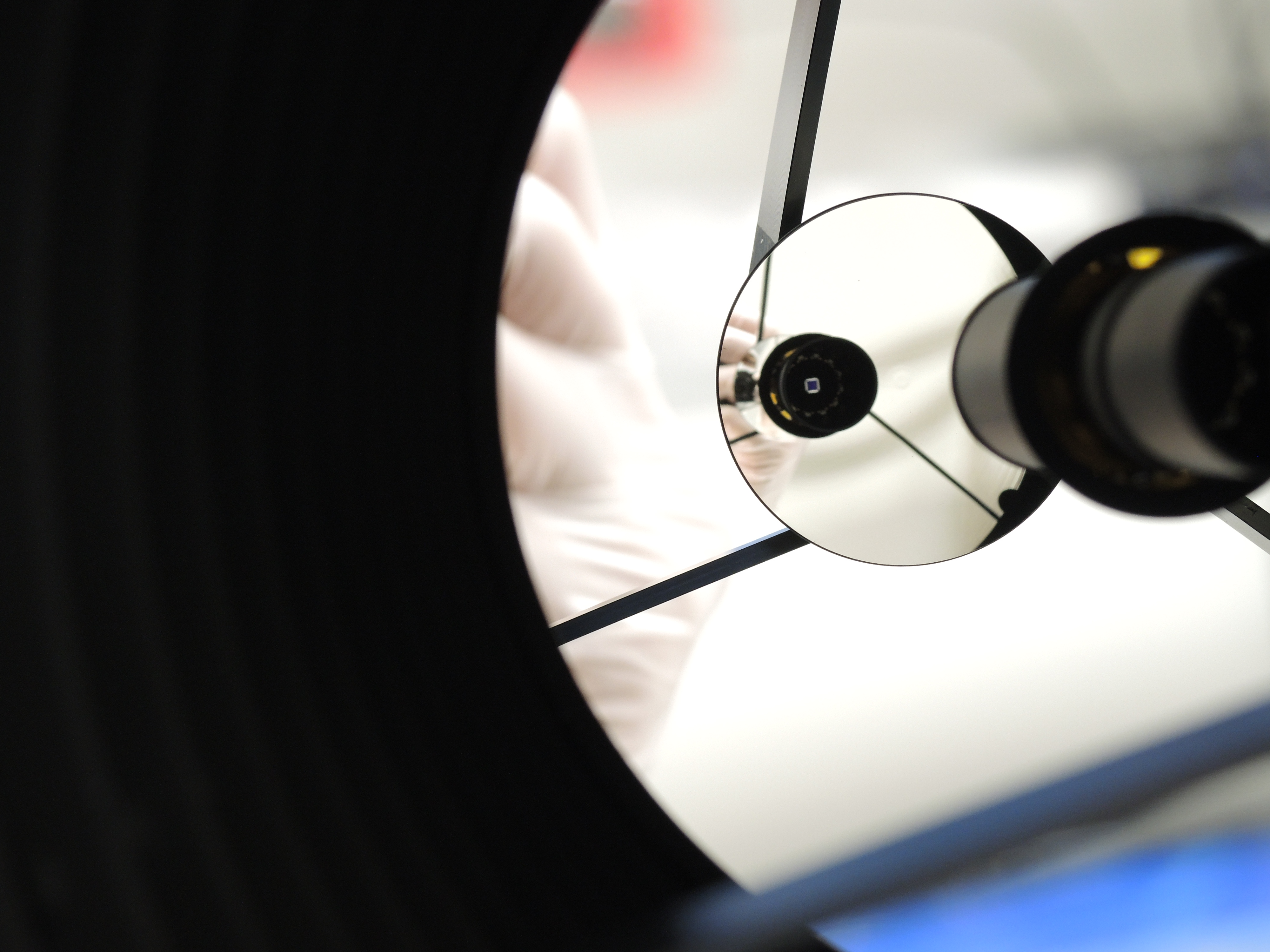 This image was taken in the clean room of the university of Bern after integration of the flight telescope optics with the backend optics and detector unit. The image is taken by Thomas Beck using a normal camera. You can see the CCD detector optical sensitive area.